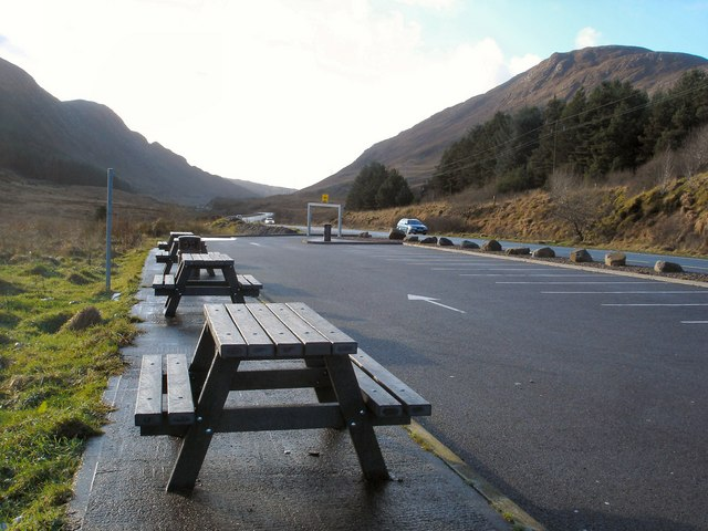 The Barnesmore Gap On the N15 between Ballybofey and Donegal town the road enters the Barnesmore gap. There is a new picnic area, one of three, protected by barriers against caravans and lorries.The remains of a once busy railway can be traced through here running along the Lowerymore river.On the right is Croaghconnellagh,523m, and the slopes of Barnesmore on the left.